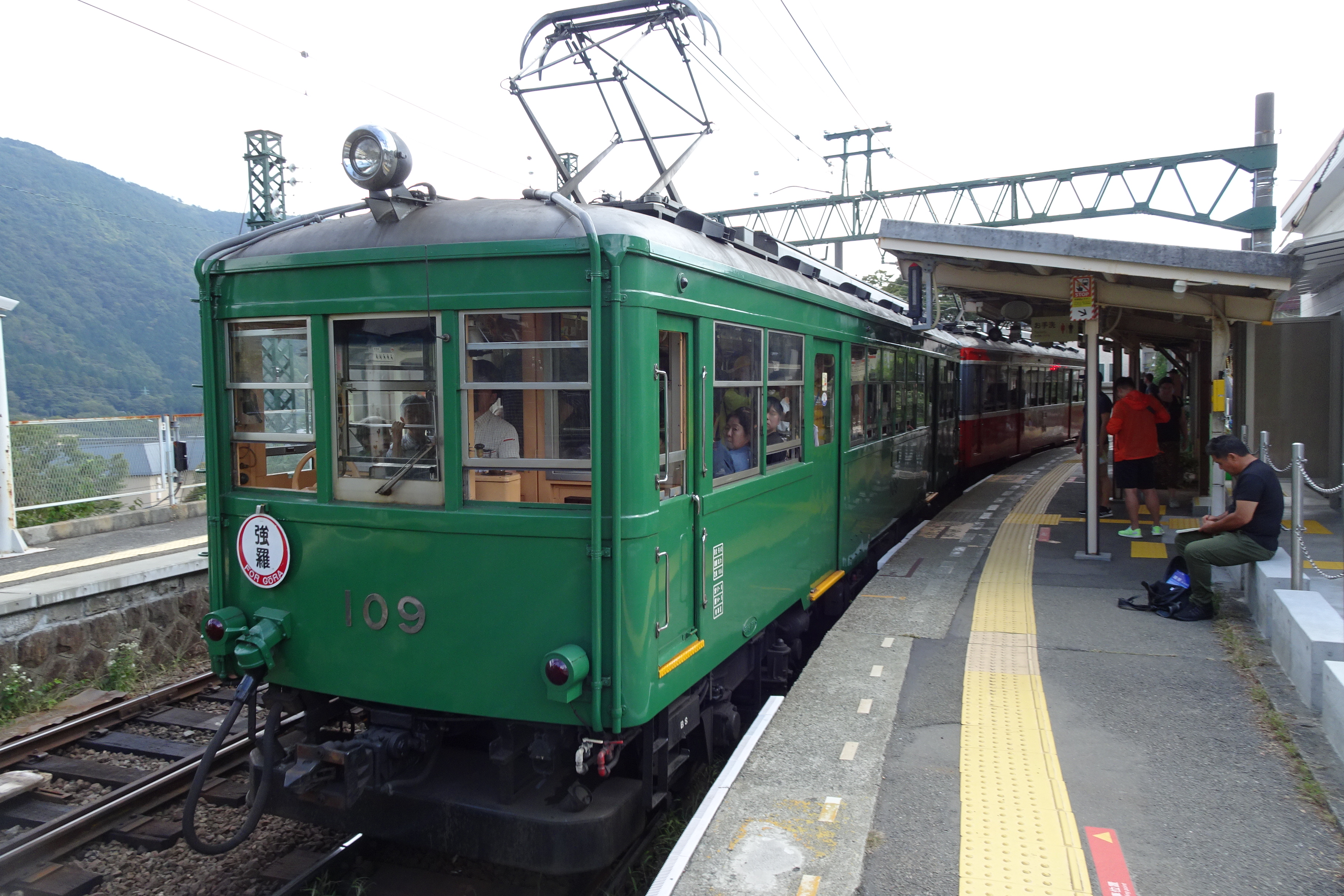 Hakone Tozan EMU 109 at Chokokunomori Station